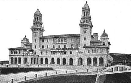 Circa 1918 view of Terminal Station, a train station, that used to be located in Atlanta, Georgia. Built in 1905, it was razed in 1972 for new development.